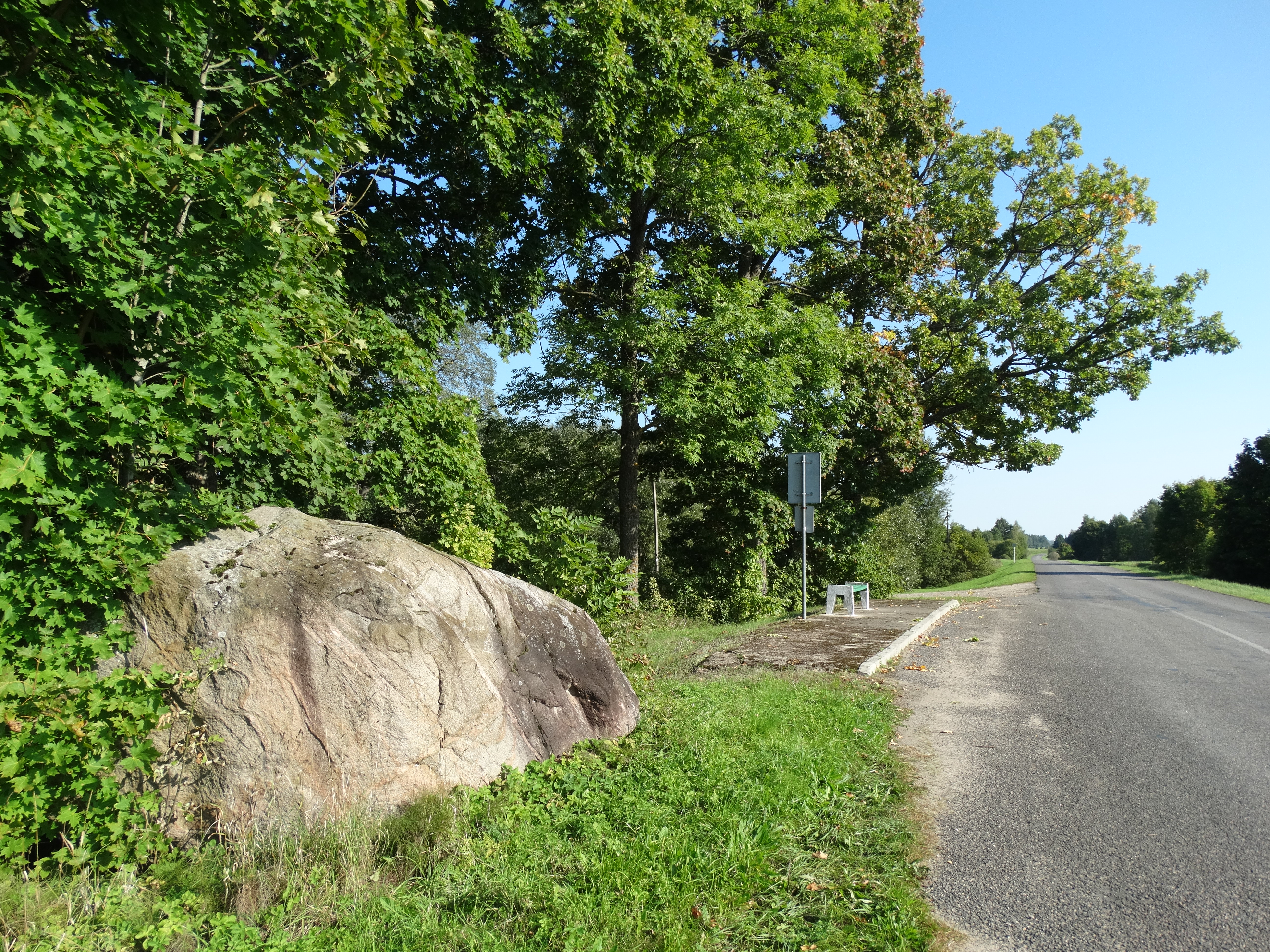 Gurnapolis, Zarasai District, Lithuania